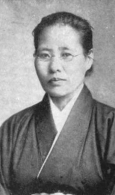 A black-and-white portrait of a middle-aged Asian woman, wearing glasses and a simple dark jacket. Her hair is dressed back, away from her face and neck.